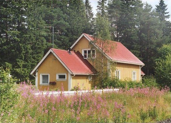 Former Madekoski railway depot in Oulu, Finland. Currently a private residence.